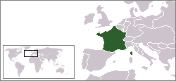 Map of the French Second Republic